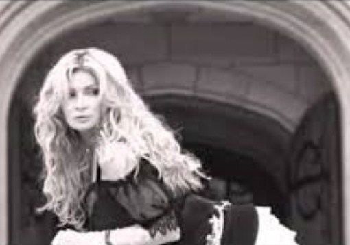 A 2013 photo of Cindy Valentine from a photo shoot for the song Le Derrière.